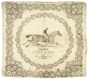 Souvenir Handkerchief dating from c 1867, depicting the 1867 Epsom Derby winner Hermit. Original artist dead for 70+ years